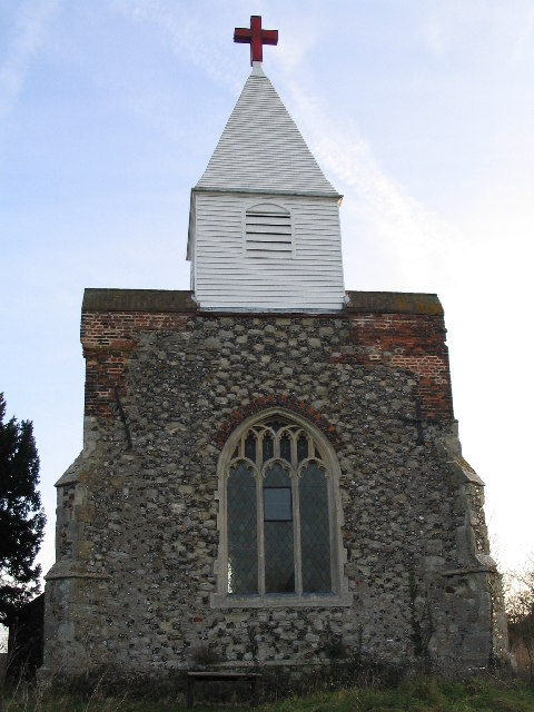 Church of St. Mary and St. Margaret, Stow Maries, Essex, England